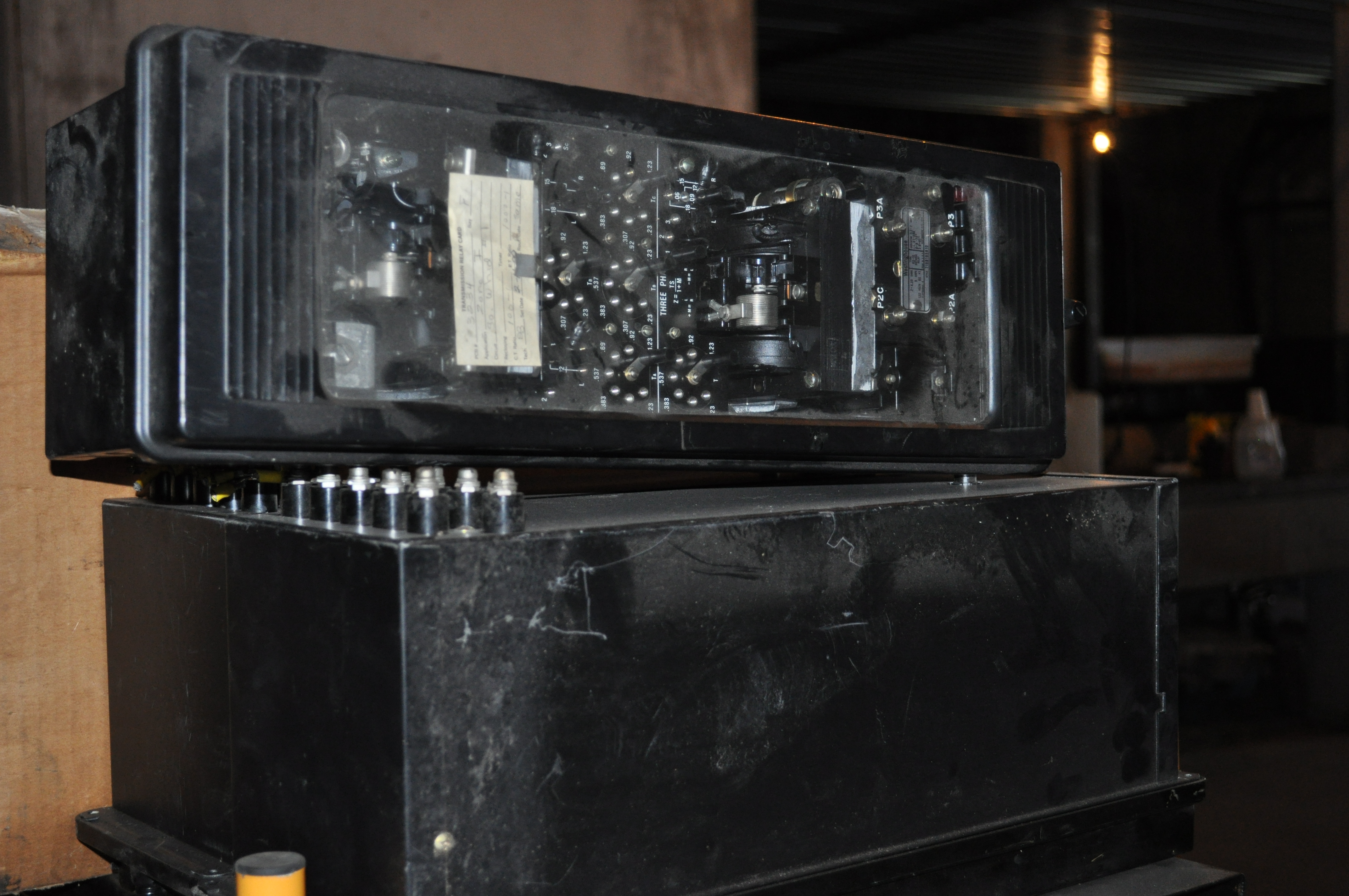 Westinghouse phase impedance relays in the back room of the Georgetown PowerPlant Museum, Georgetown, Seattle, Washington.